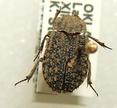 Trox variolatus adult taken by Shawn Hanrahan at the Texas A&M University Insect Collection in College Station, Texas. Cropped version of Trox_variolatus_sjh.jpg.